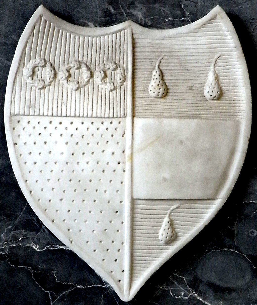 Escutcheon showing arms of Morrison impaling Orchard. Detail from mural monument to Charlotte Orchard (1735-1791), wife of Rev. Hooper Morrison (1737-1798) of Yeo Vale, in the parish of Alwington, Devon. Yeo Vale Chapel, Alwington Church. Arms: Or, on a chief gules three chaplets of the first (Morrison) impaling Azure, a fess argent between three pears pendant or (Orchard, of Hartland Abbey)